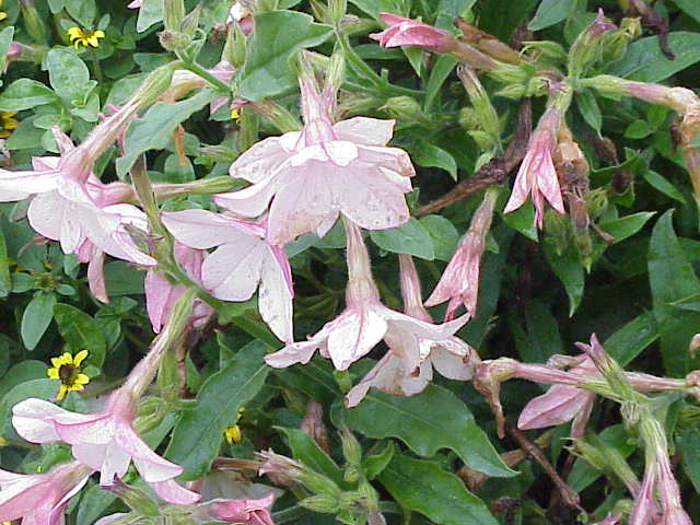 Species: 'Nicotiana × sanderae' Family: Solanaceae Image No. 1